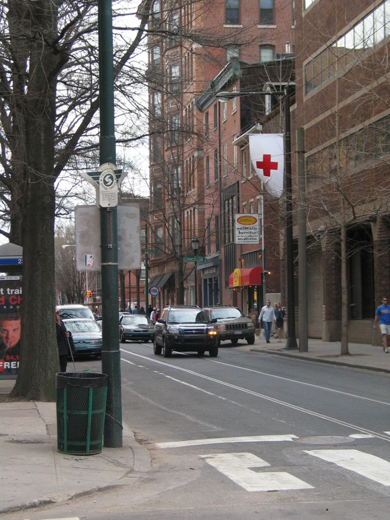 11th street in Philadelphia, looking south from Walnut Street. The tracks for 23rd Streetcar routes are left.